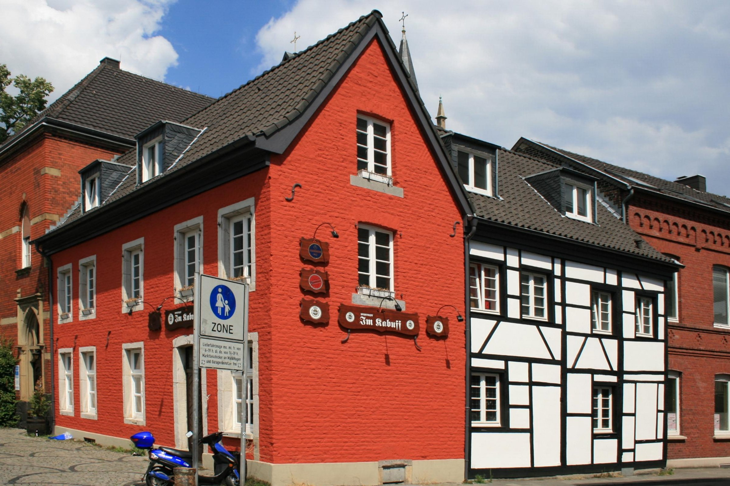 Cultural heritage monument No. K 045 in Mönchengladbach